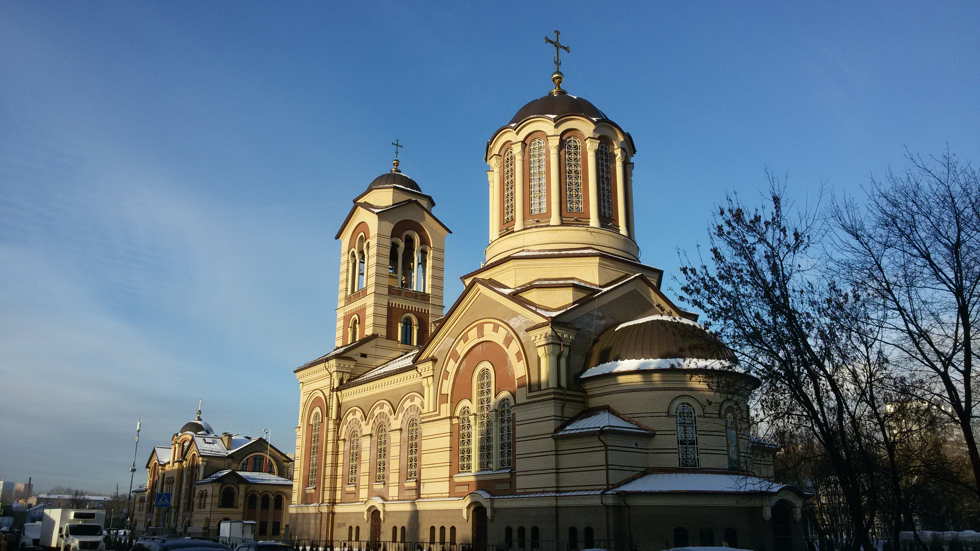 Москва улица Михалковская